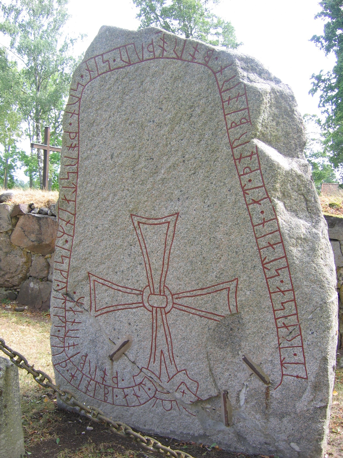 Runestone Sö 84 by Tumbo church, Södermanland.